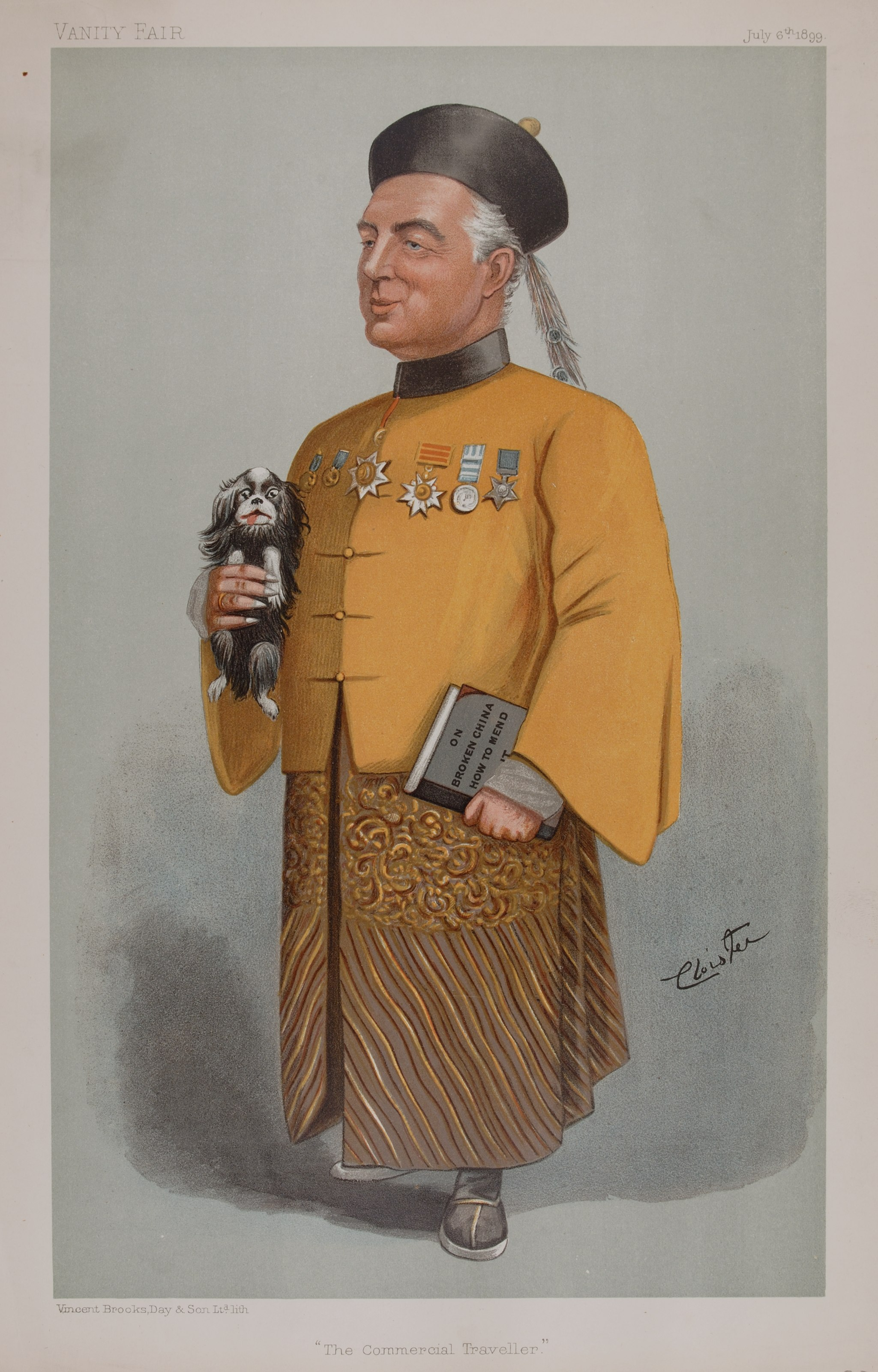 Statesmen No. 709: Caricature of Admiral Lord Charles Beresford. Caption read "The Commercial Traveller".